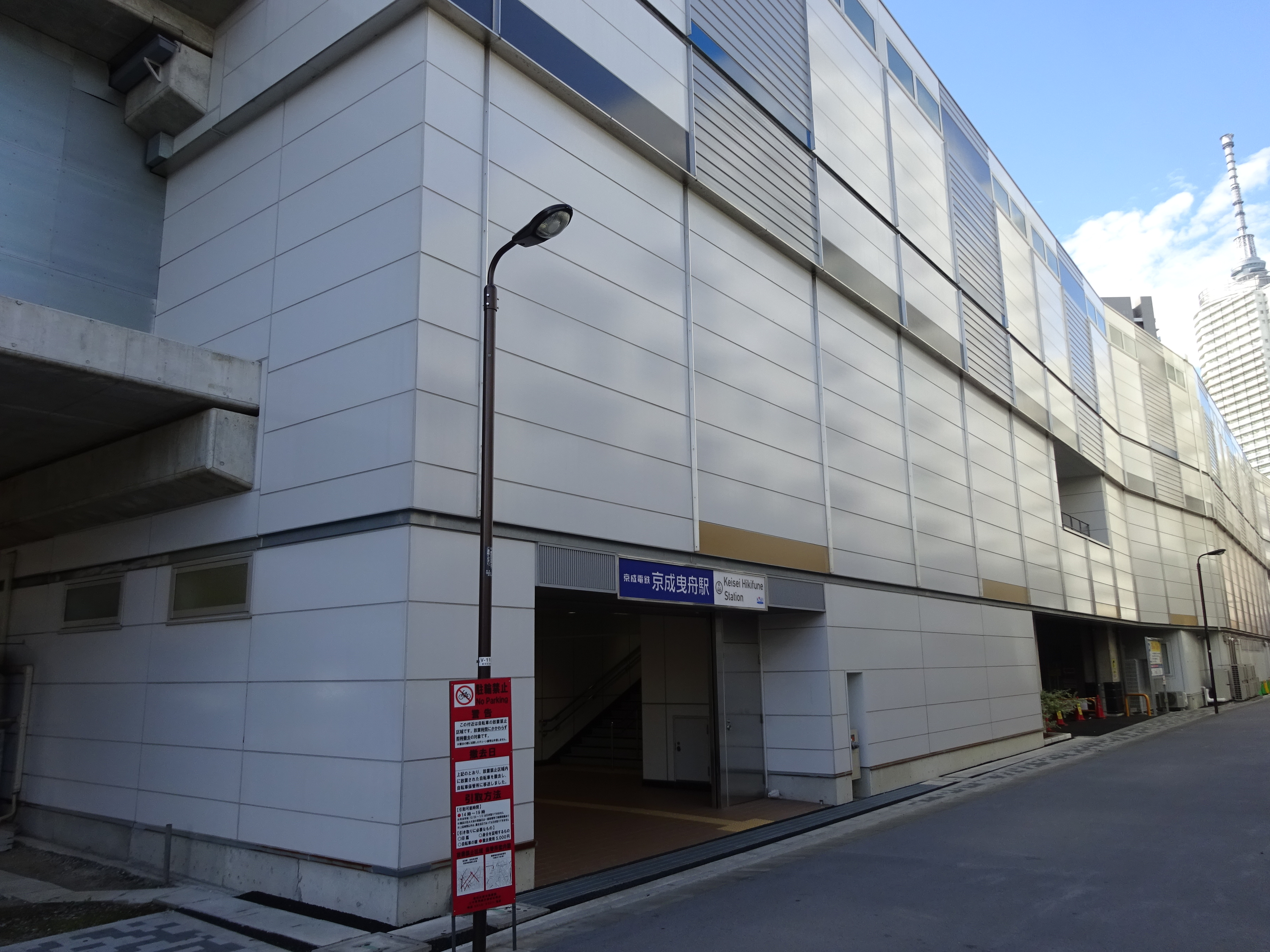 East entrance of Keisei Hikifune Station